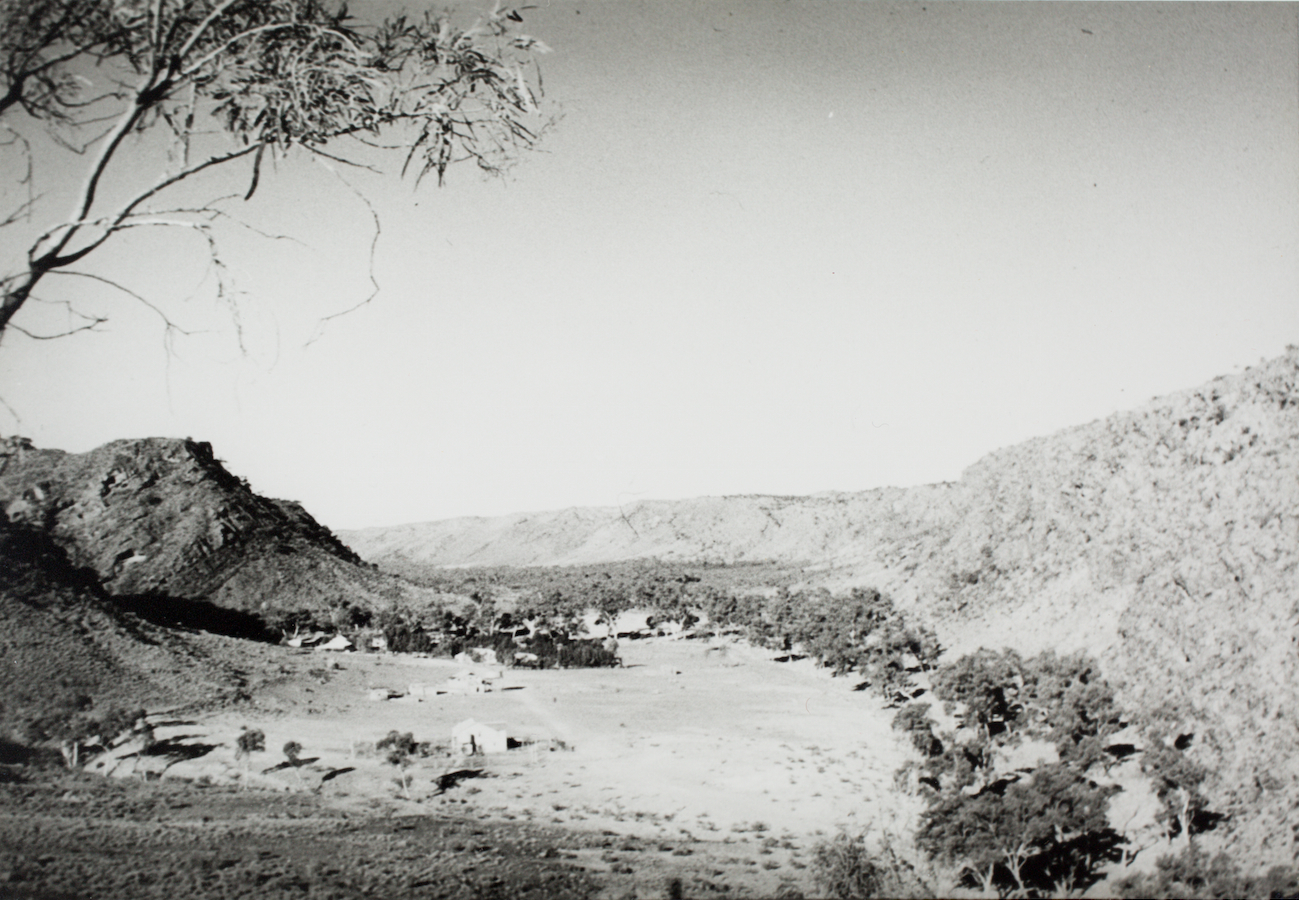 Areyonga settlement in the Northern Territory of Australia (PH0127/0185)